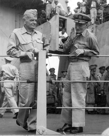 US Navy Admirals Bull Halsey (L) and John S. McCain, Sr. (R) on the USS Missouri (BB-63) shortly after the conclusion of the surrender ceremonies, 2 September 1945. source